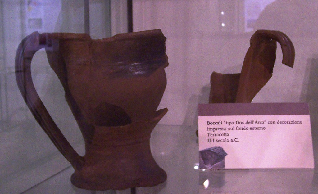 Dos dell'Arca pottery. Museo Nazionale della Valcamonica, Cividate Camuno, Italia